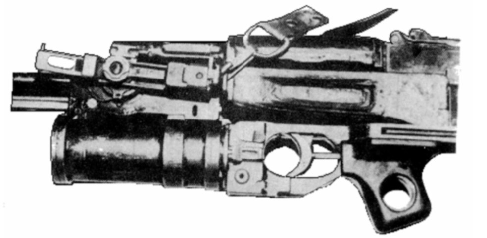 A GP-25 grenade launcher. From the US Army World Equipment guide 2001 (A PDF file made by the US Army).